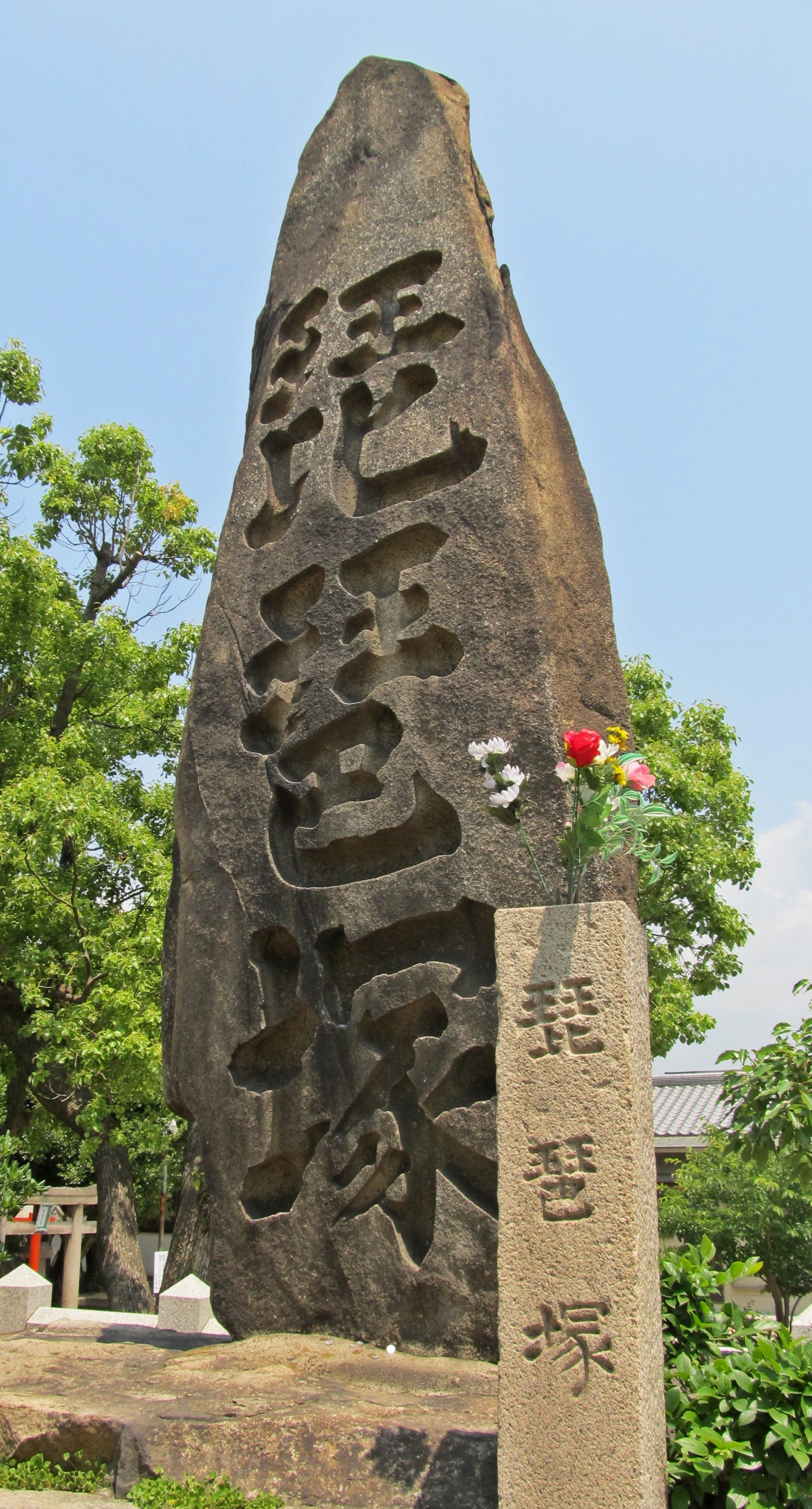 Biwa Zuka (Hyōgo-ku,Kobe,Hyogo,Japan).Built in 1902.